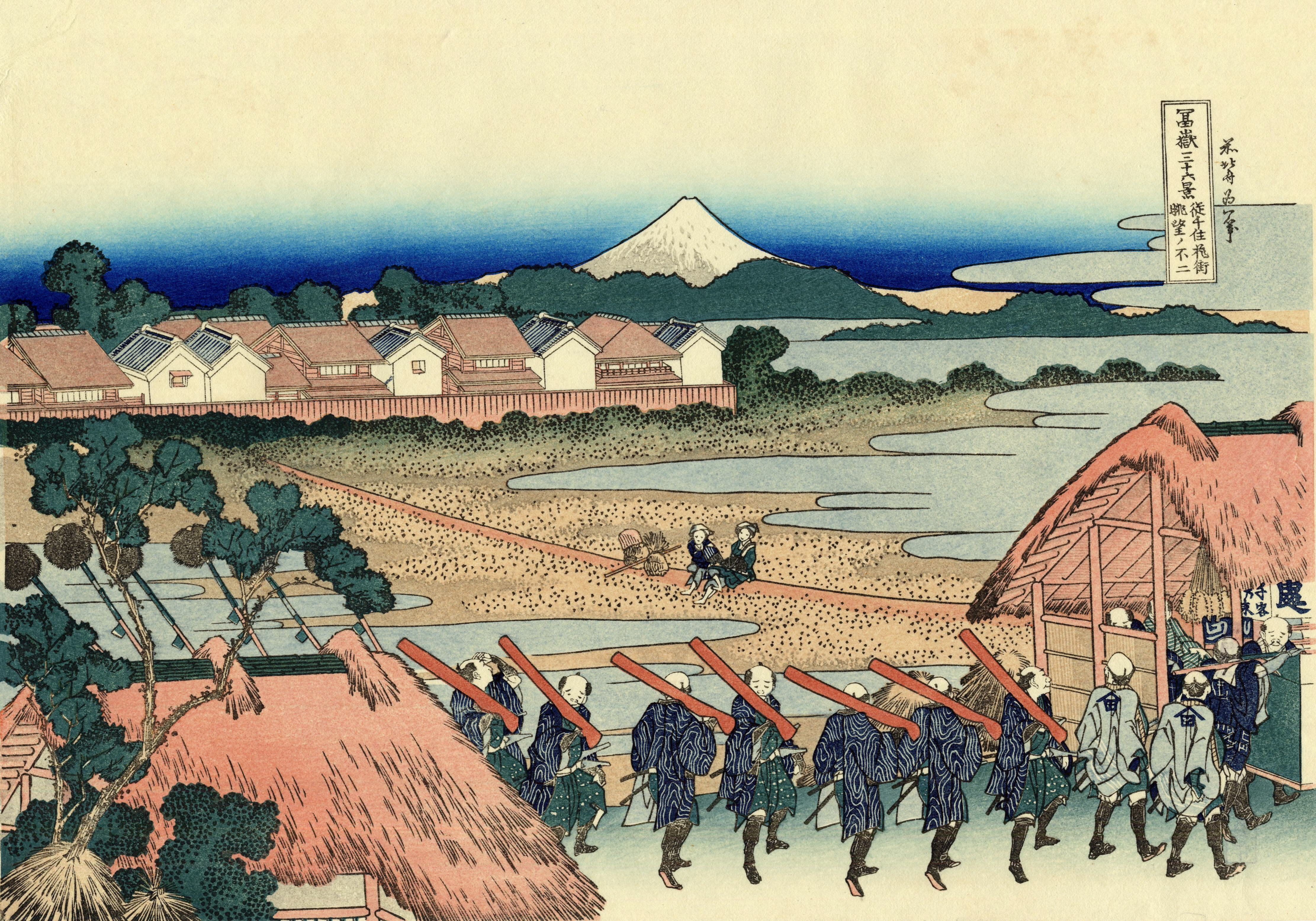 Part of the series Thirty-six Views of Mount Fuji, no. 15.